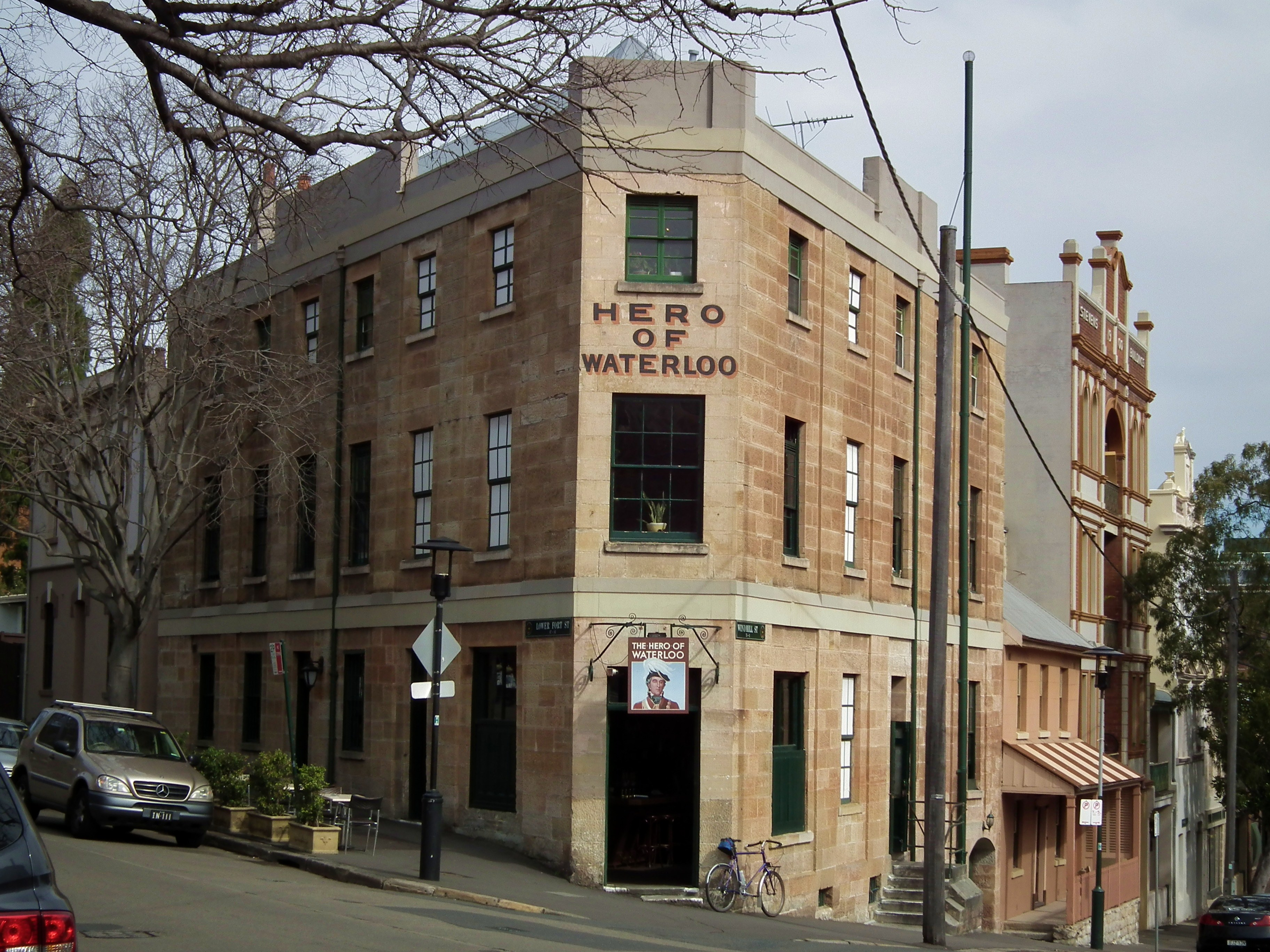 Heor of Waterloo Hotel - Miller's Point, Sydney, New South Wales. Built 1843-44. Continually licenced since 1845. Located at 81 Lower Fort Street, on the corner of Windmill Street, Miller's Point.